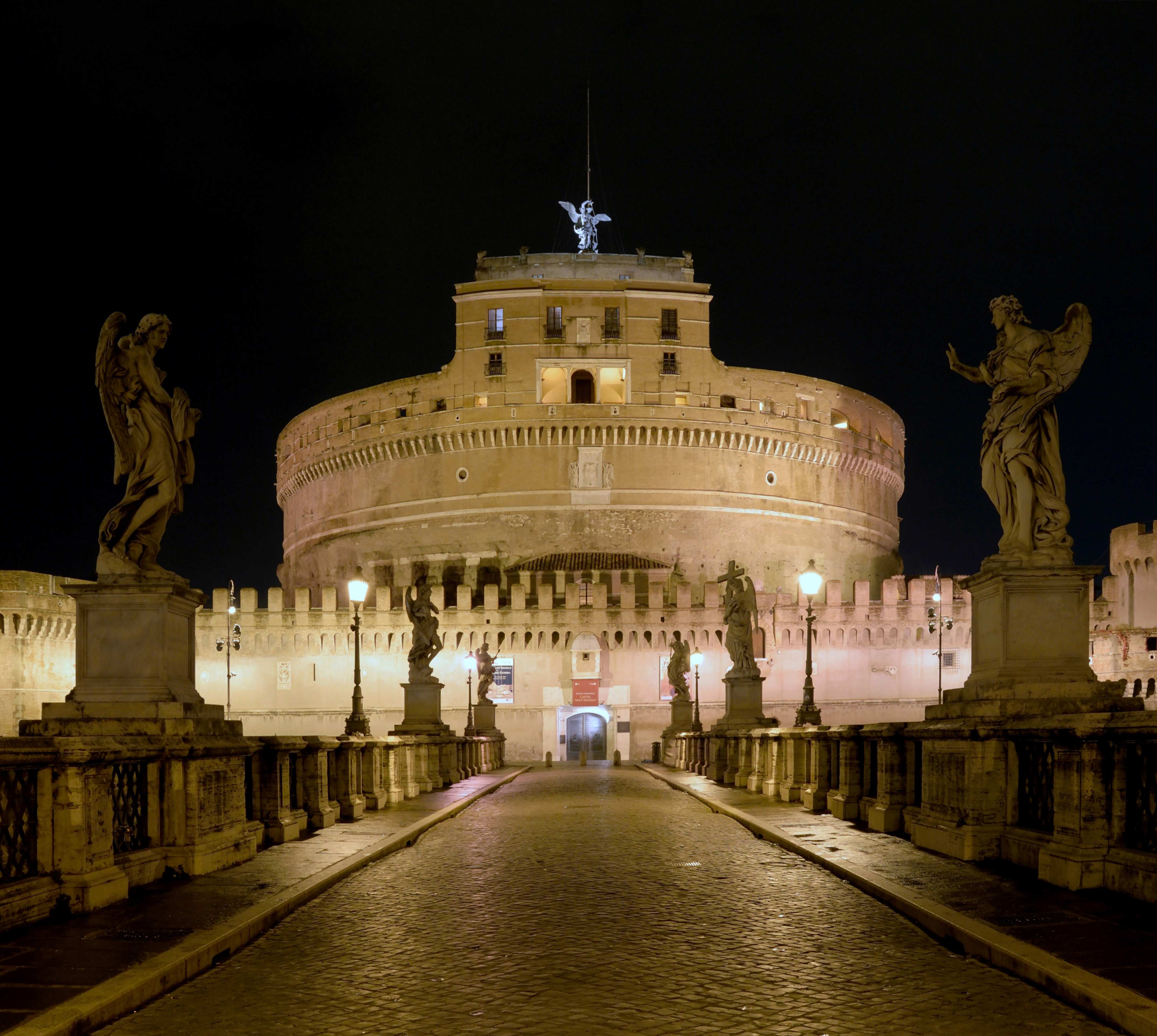 Castel S'Angelo at Night